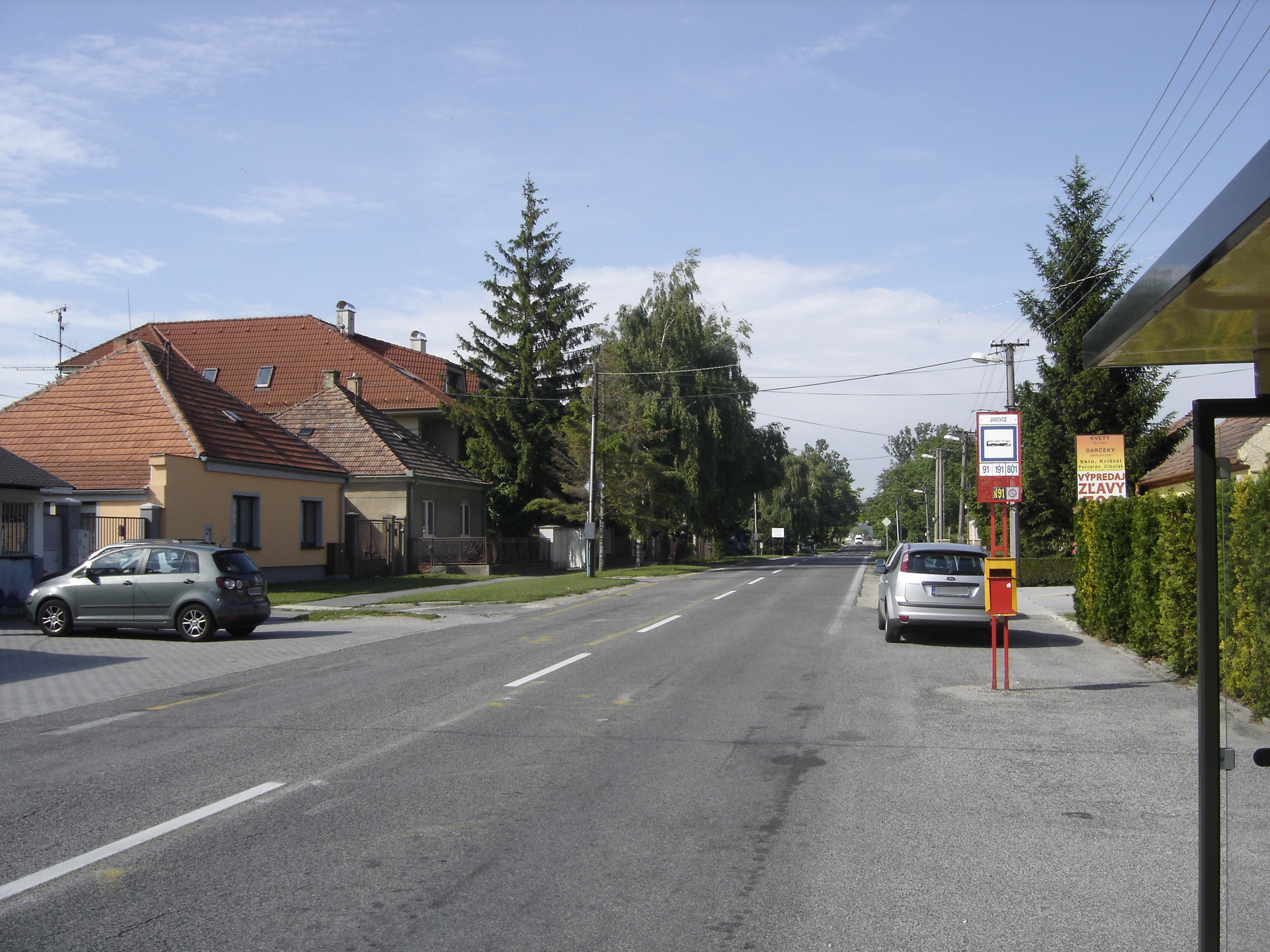 Jarovce, Bratislava, Slovakia